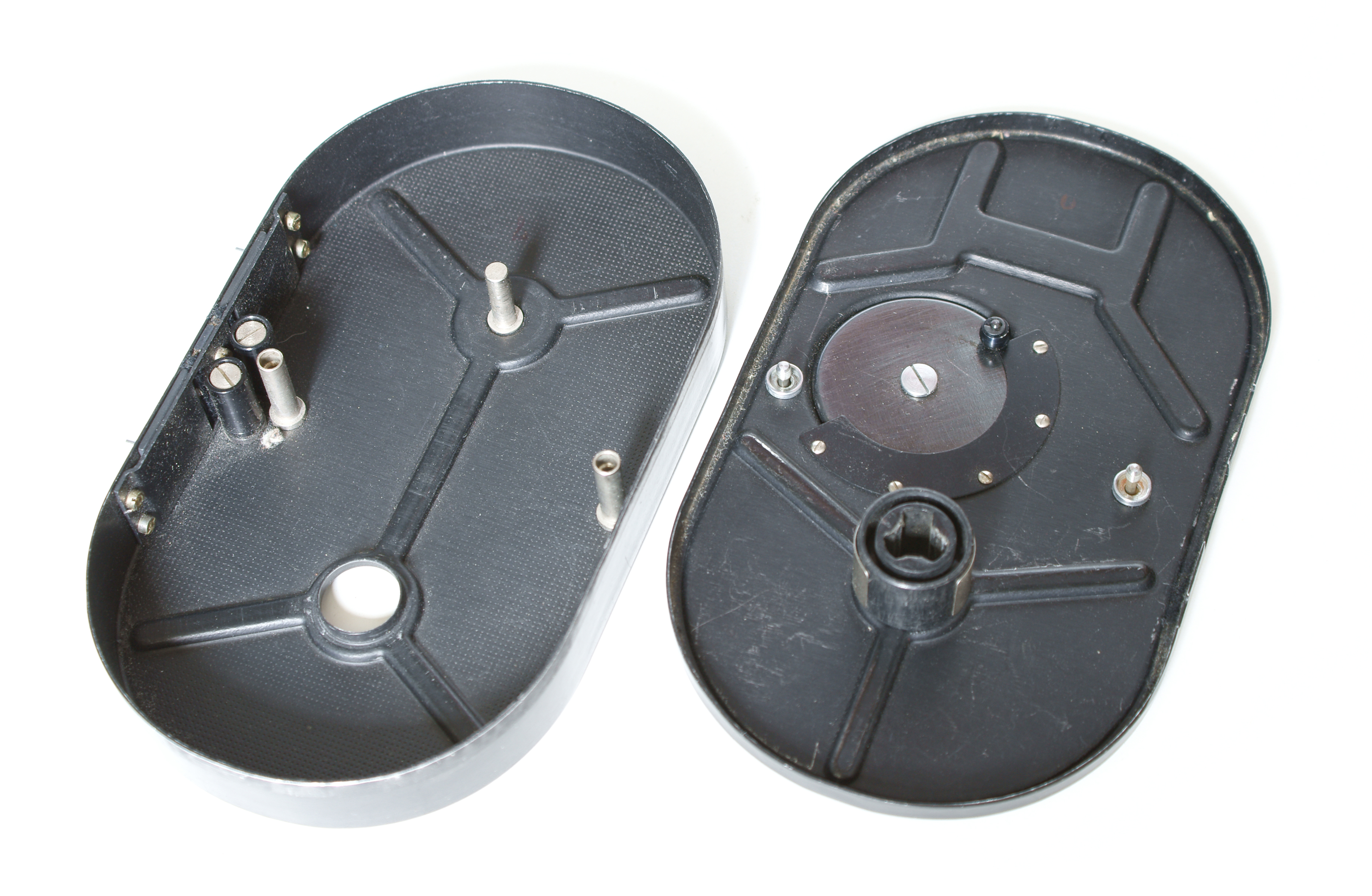 Open cassette for soviet 16-mm movie camera Krasnogorsk-2.